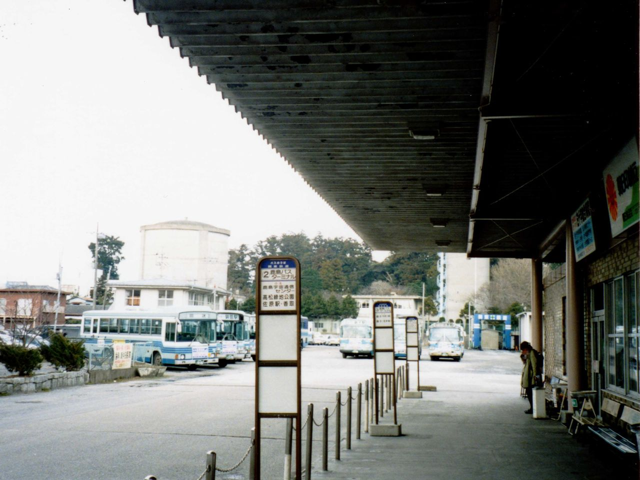 Kashima Bus Terminal Platform